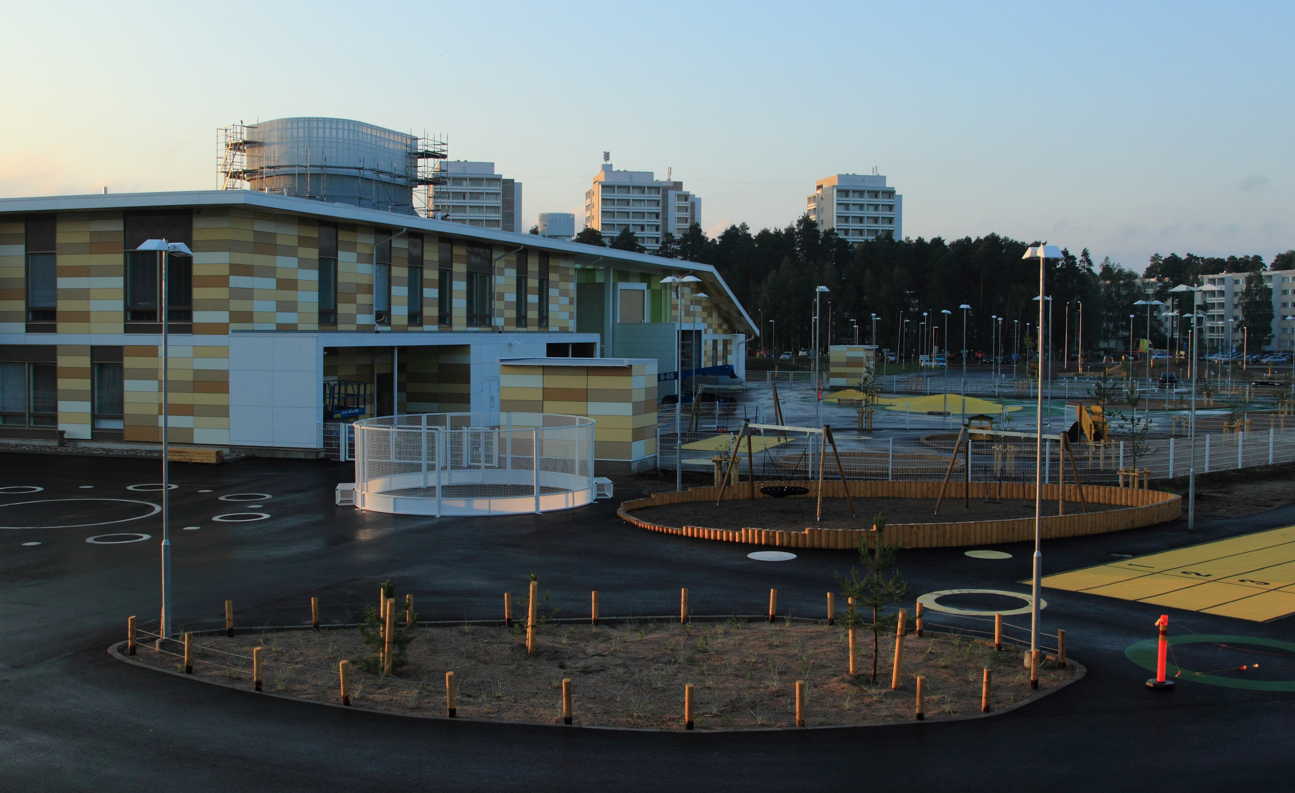 The Kastelli community centre in Oulu.